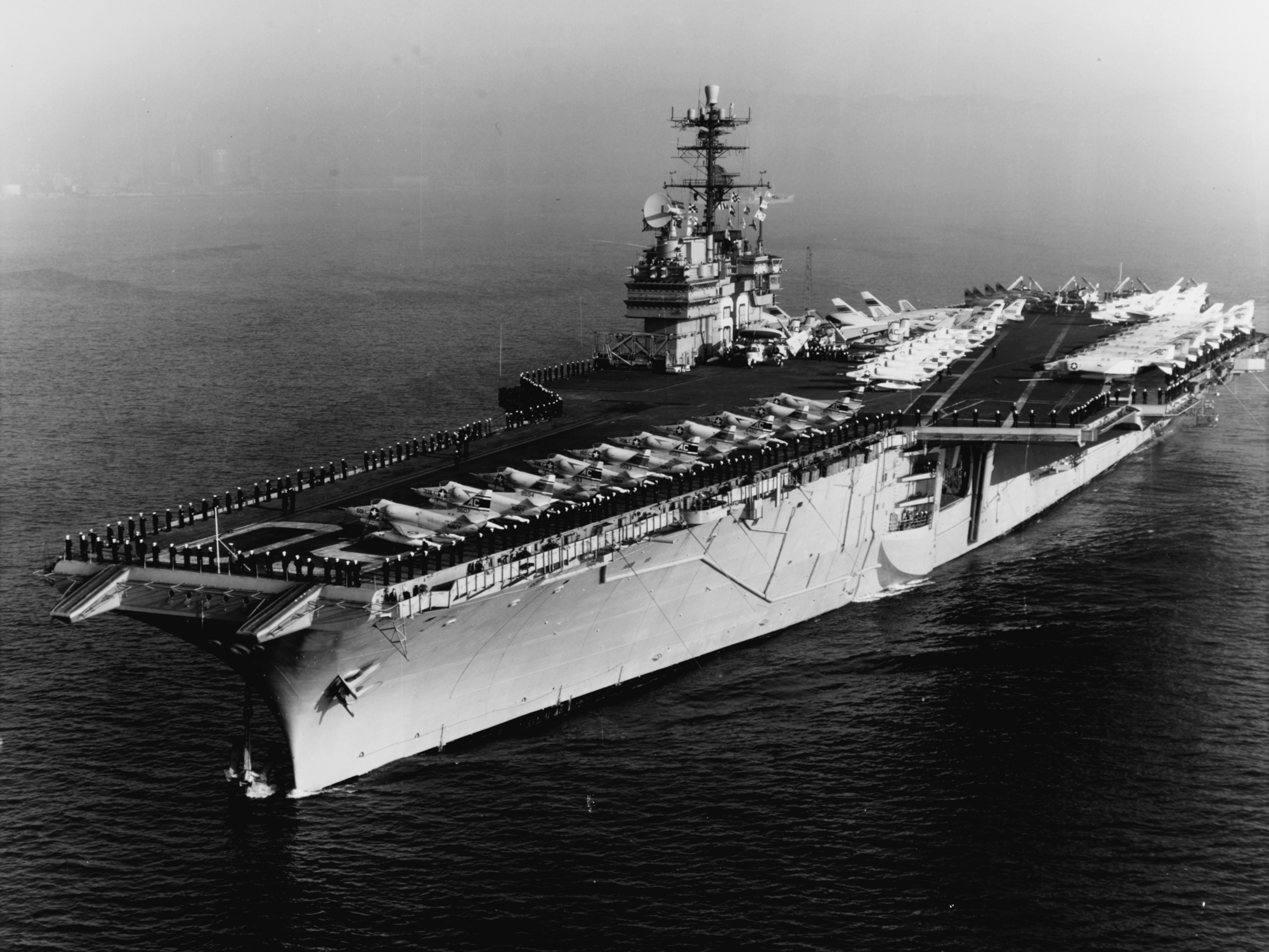 The U.S. Navy aircraft carrier USS Saratoga (CVA-60) with her crew manning the rail on the flight deck, as she arrives in Barcelona, Spain, 12 February 1965. Saratoga, with assigned Attack Carrier Air Wing 3 (CVW-3), was deployed to the Mediterranean Sea from 28 November 1964 to 12 July 1965.